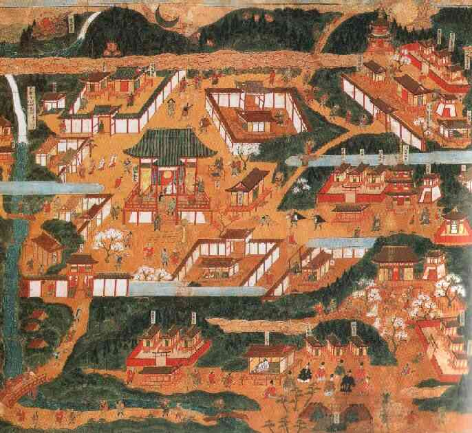 Yoshimine-dera Sankei Mandala, Yoshimine-dera, Kyoto, Kyoto, Japan